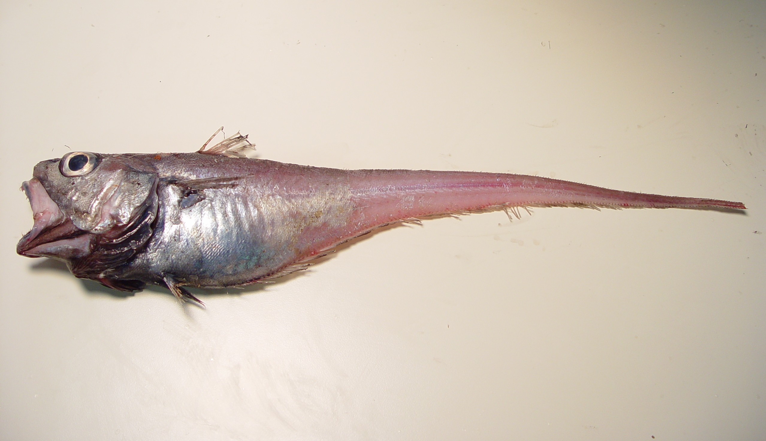 Softhead grenadier (Malacocephalus laevis)